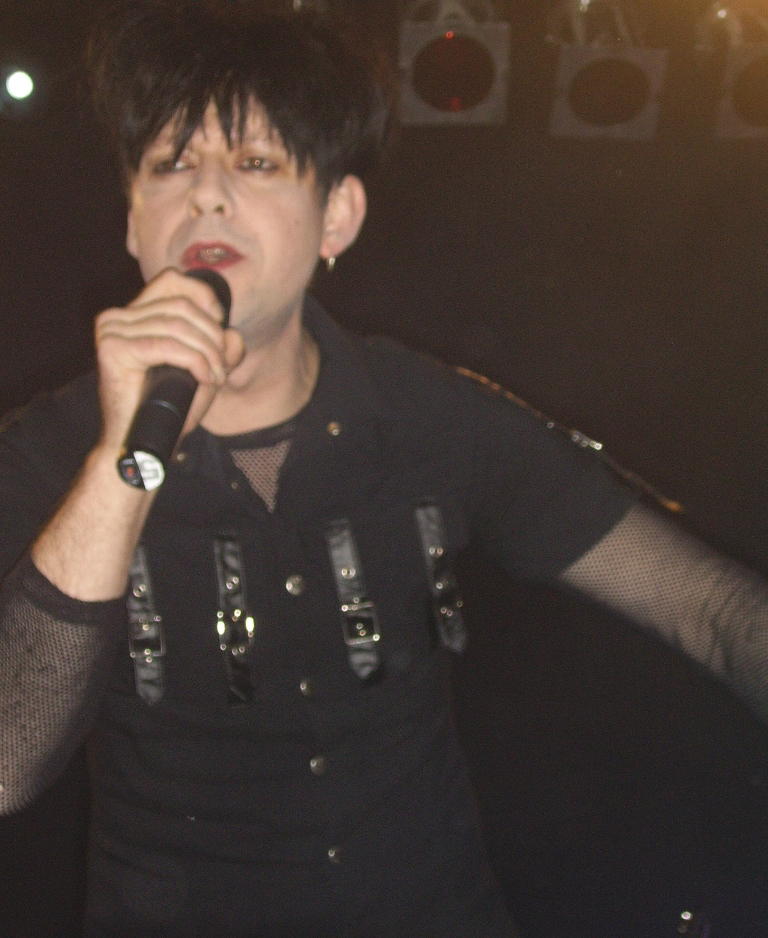 Ronny Moorings of Clan of Xymox live in Sofia.